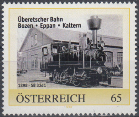 Bolzano-Caldaro railway postage stamp